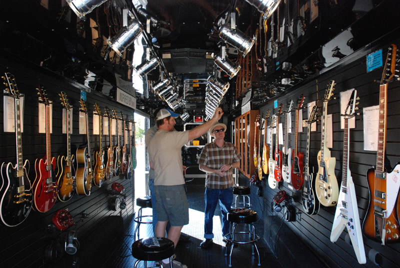 A look inside the Gibson Custom Shop Trailer, where anyone can choose from 35-40 guitars to play. KOMU Photo/Ryan Taylor.